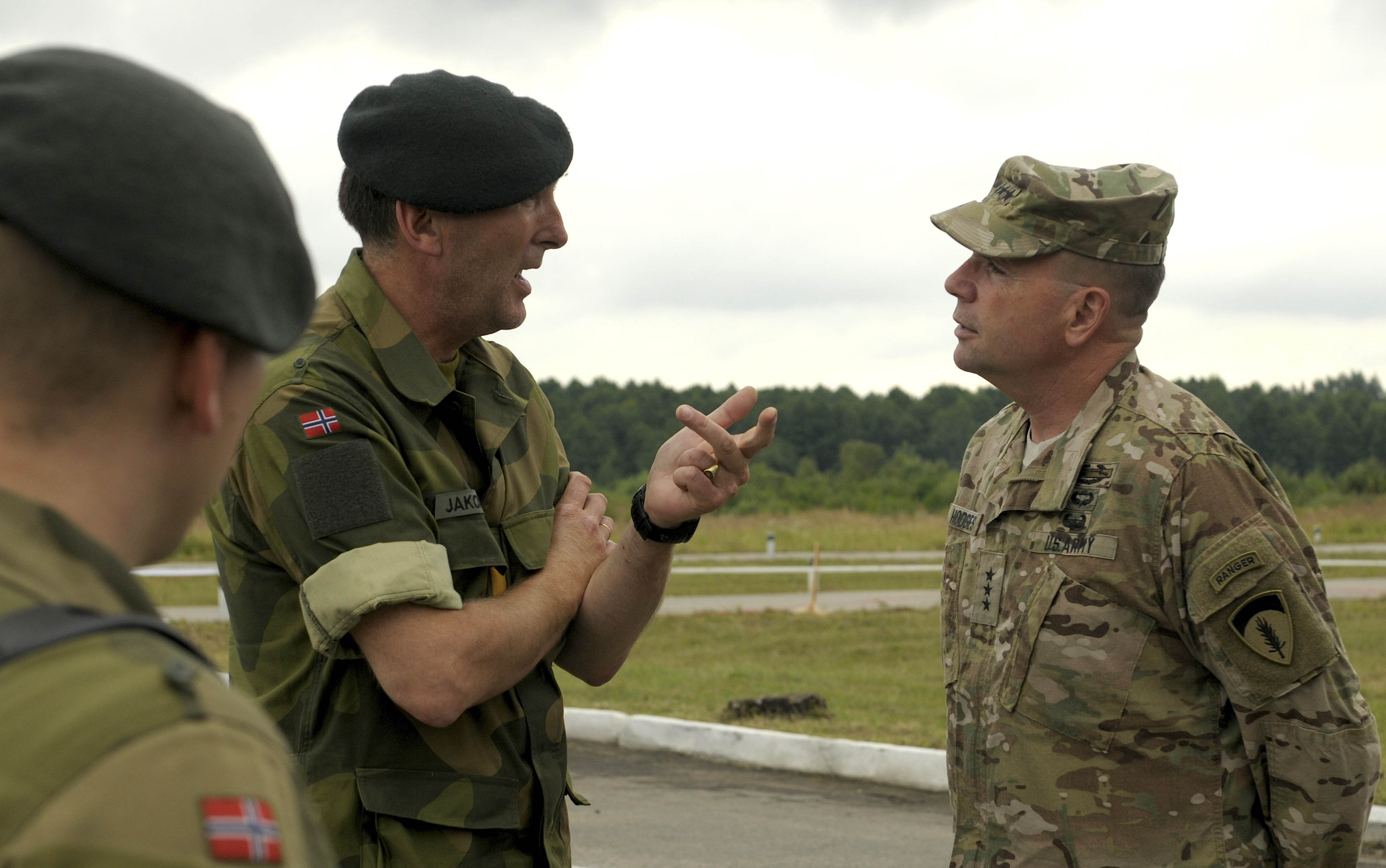 Lt. Gen. Ben Hodges, commander U.S. Army Europe, talks with members of the Norwegian delegation to the distinguished visitor day held for the multinational exercise Rapid Trident 2015 at the at the International Peacekeeping and Security Center near Yavoriv, Ukraine, July 24, 2015. Rapid Trident is a long-standing U.S. Army Europe-led cooperative training exercise focused on peacekeeping and stability operations. More than 1,800 personnel from 18 different nations are participating in the exercise. (Photo by U.S. Army Sgt. 1st Class Walter E. van Ochten)